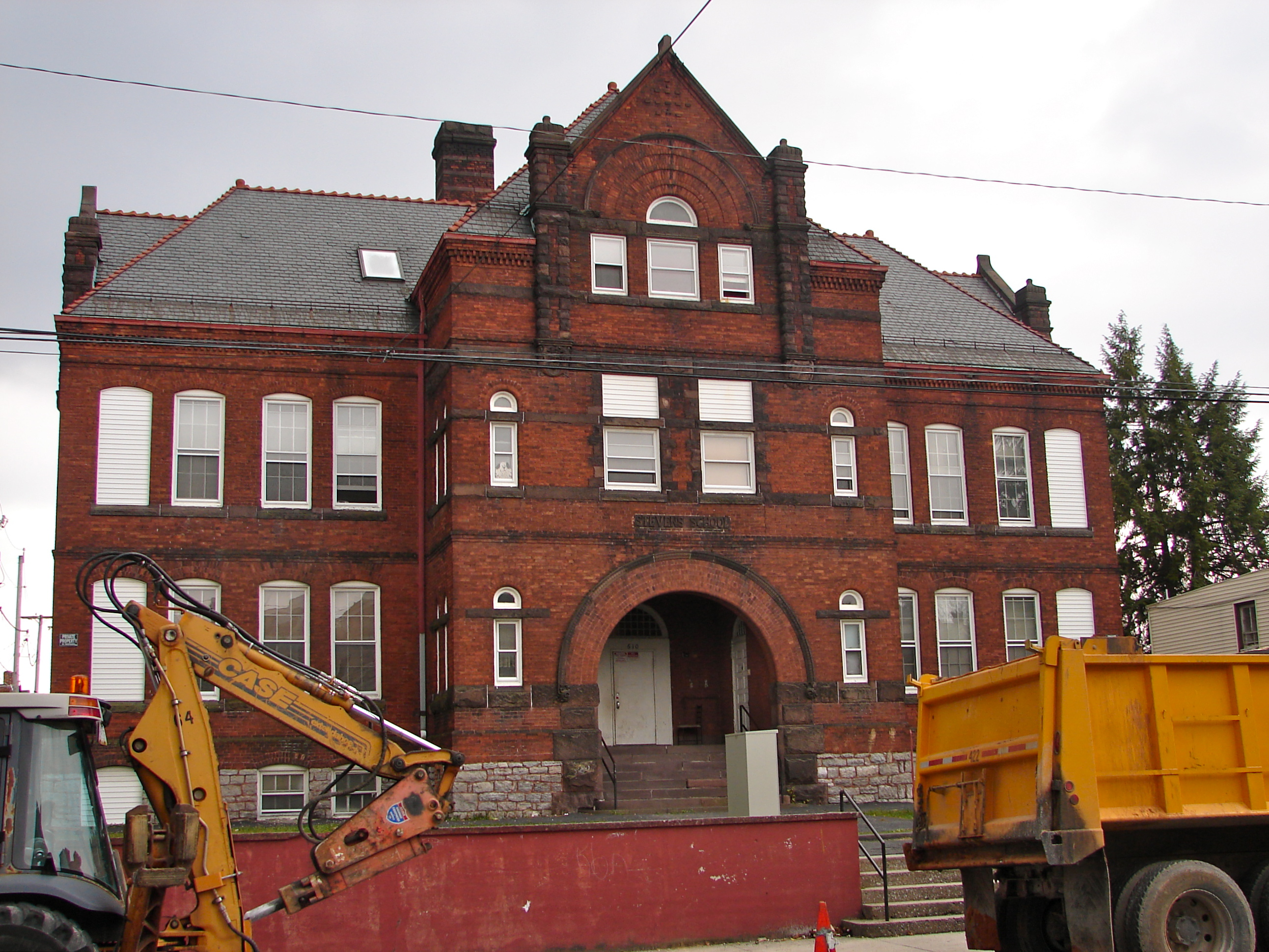 Stevens School on the NRHP since December 29, 1983. At 606 West Philadelphia Street, York, york County, Pennsylvania. Now Apartments. Named for Thaddeus Stevens.